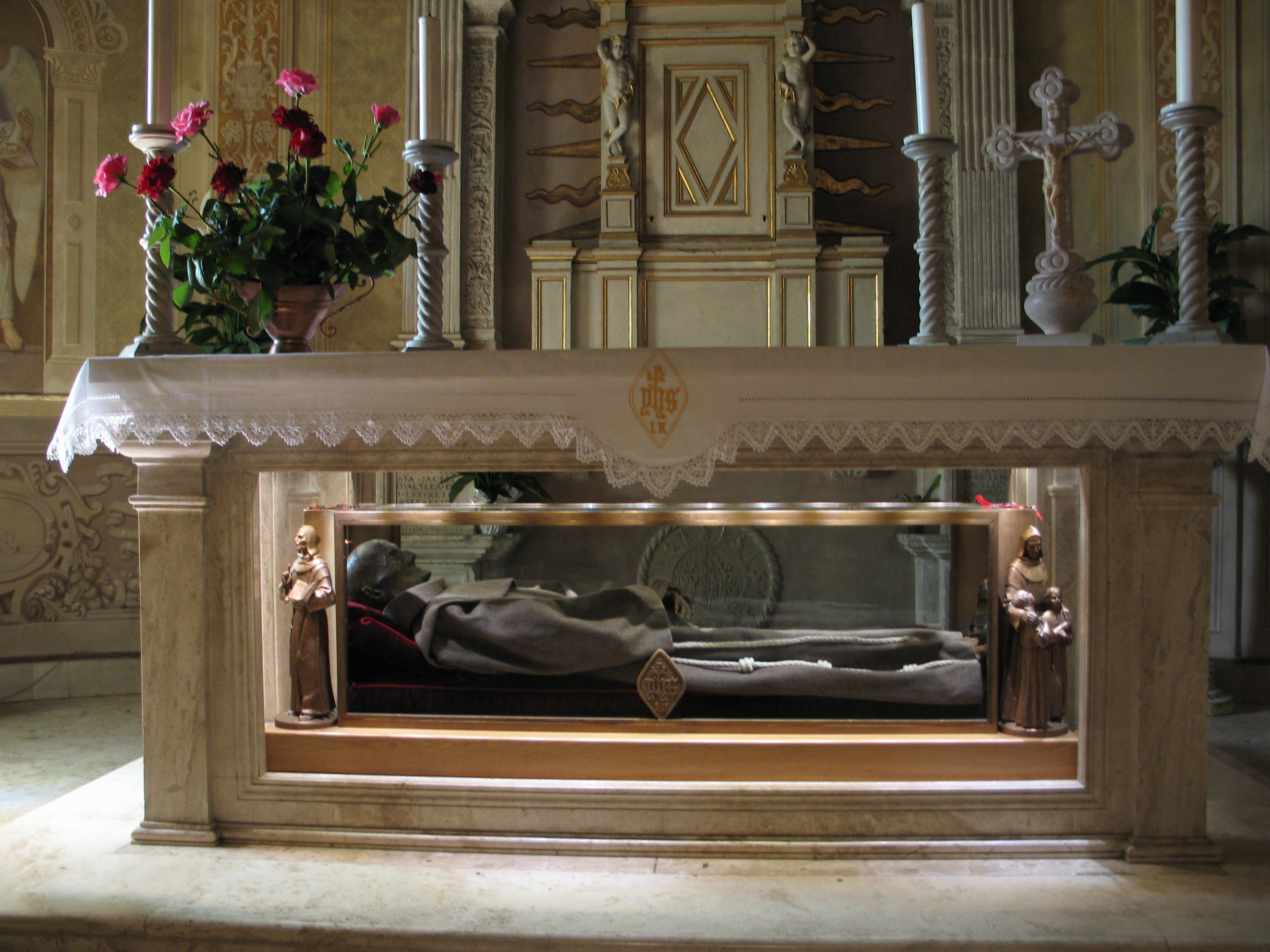 Sarcophagus with a glass-enclosed body of St. James of the Marches in the church of the Franciscans in Monteprandone, Italy